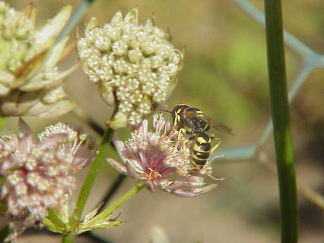 Species: Astrantia major Family: Umbelliferae Image No. 2